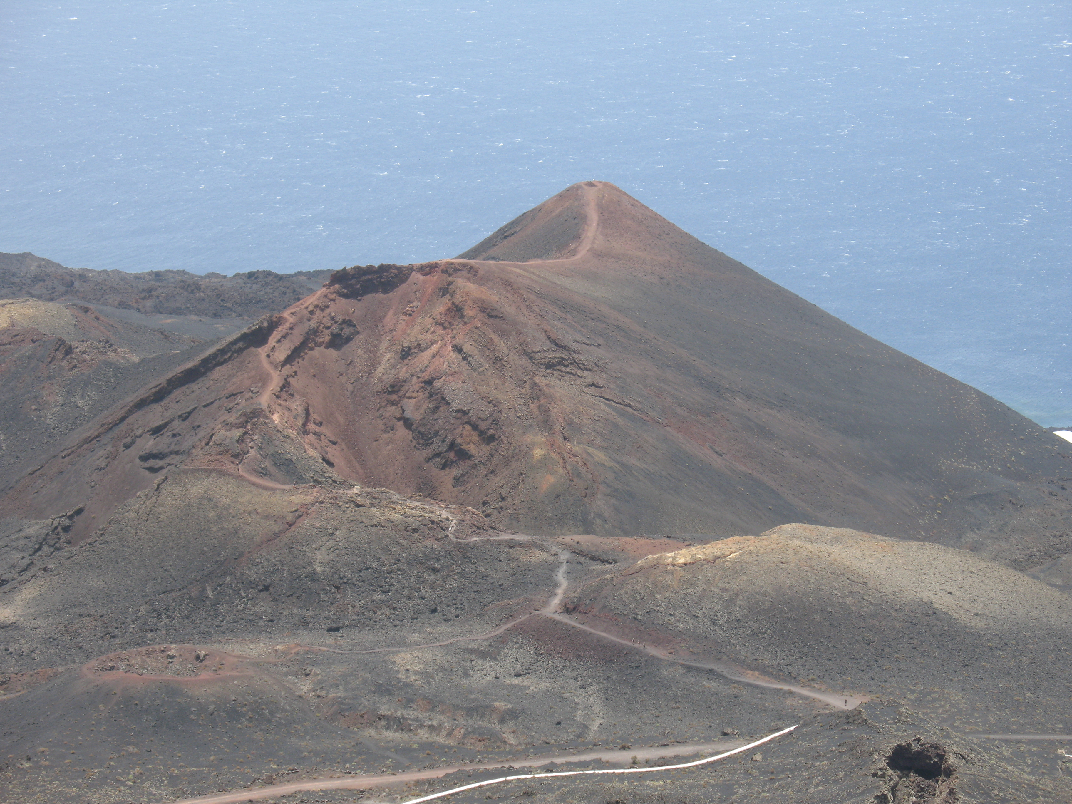 The volcano Teneguia seen from the crater of San Antonio